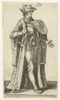 Philip the Good, Duke of Burgundy